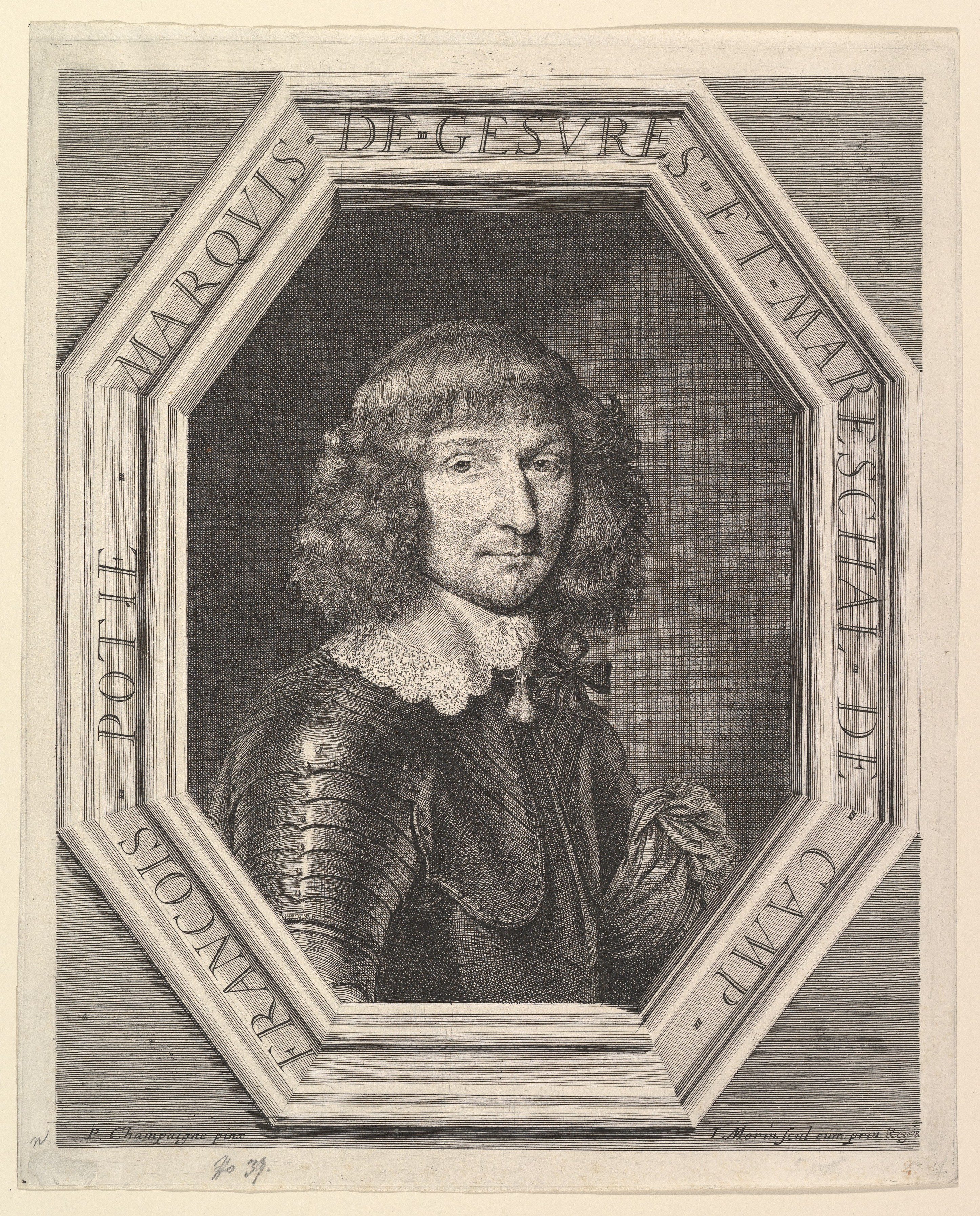 Print; Prints